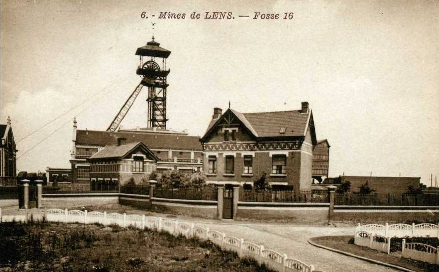 Pit of the Compagnie des mines de Lens, France.